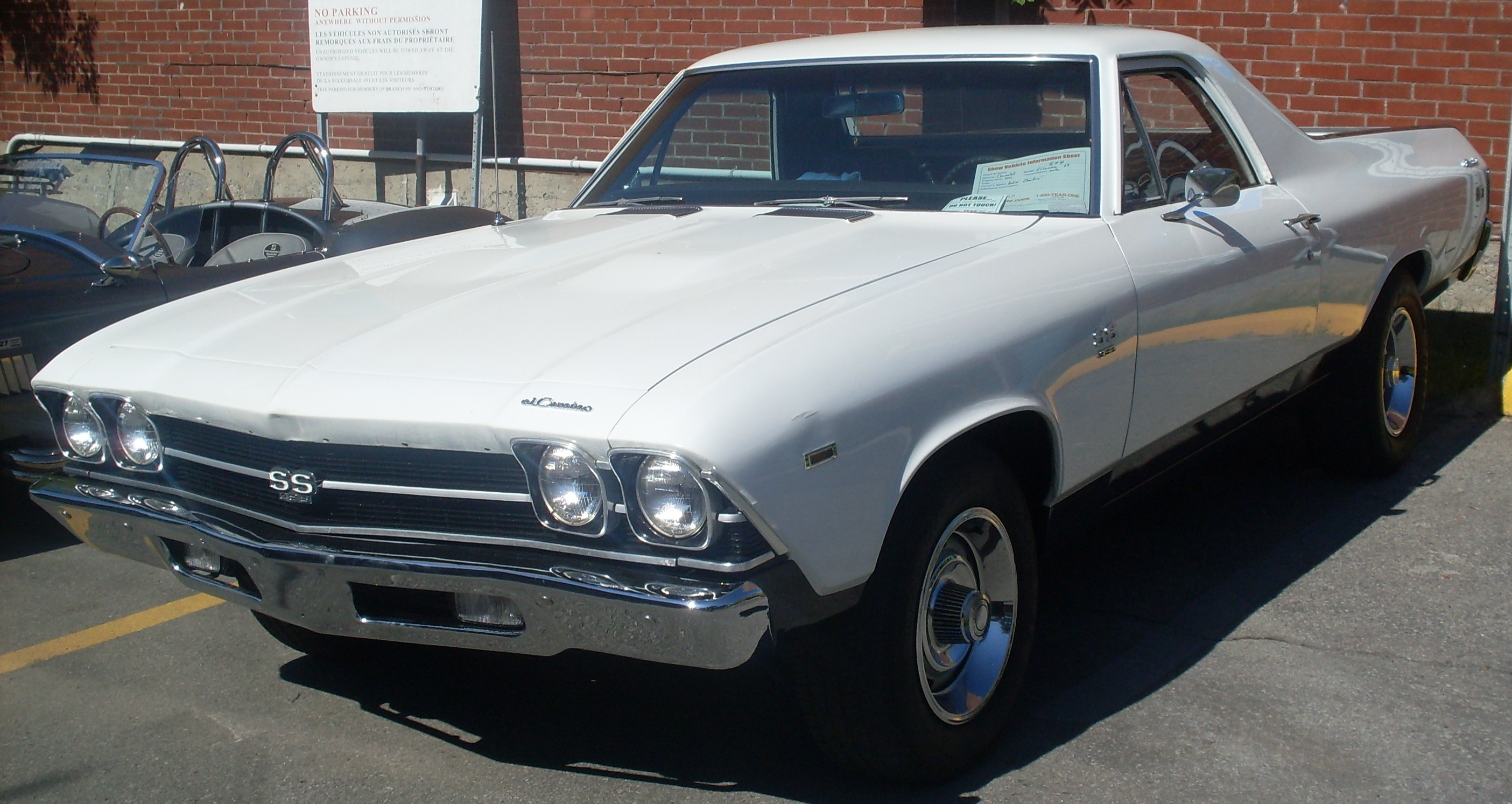 1969 Chevrolet El Camino SS photographed in Ste. Anne De Bellevue, Quebec, Canada at Cruisin' At The Boardwalk 2013.